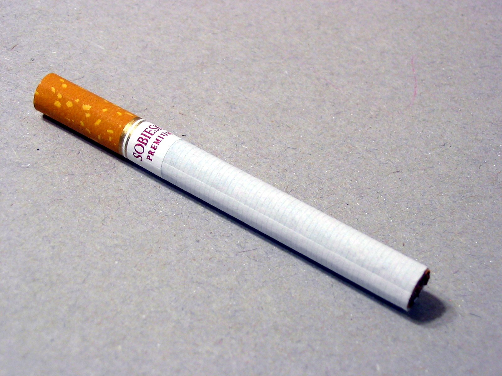 A Polish cigarette